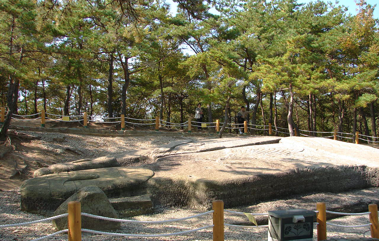 Stone Statues of the Lying Buddha at Unjusa near Gwangju (Hwasun/Yongyang)